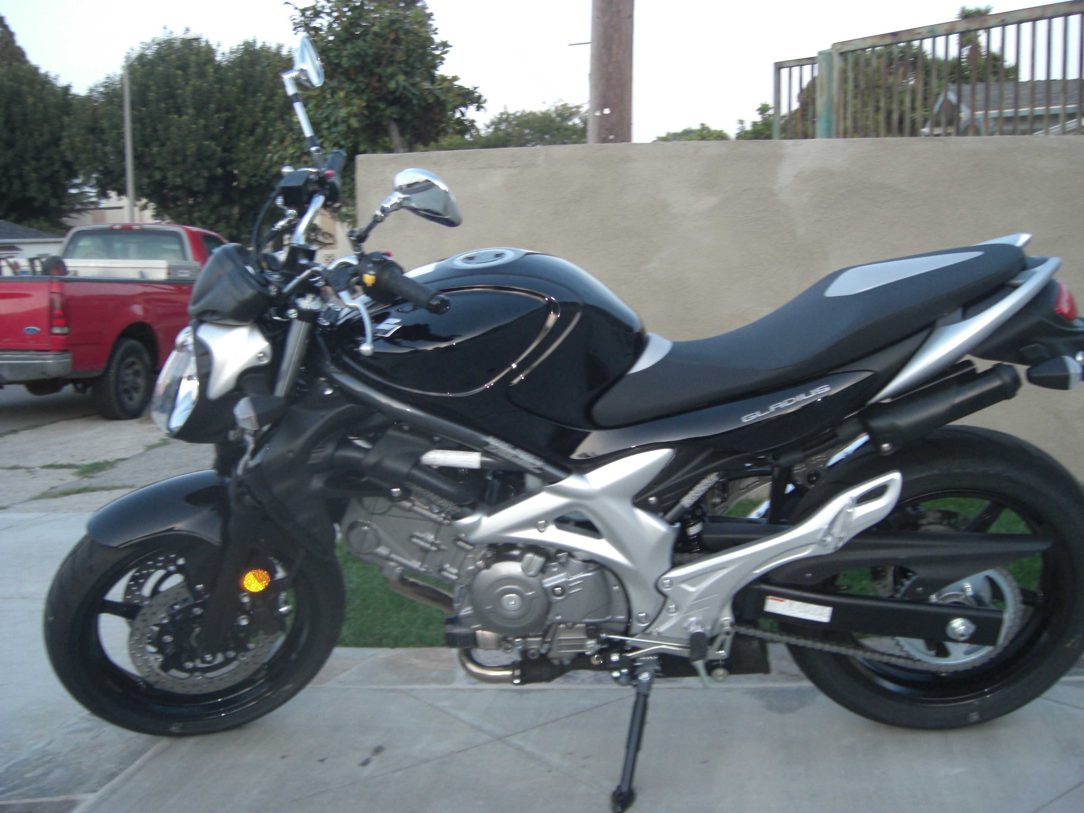 Suzuki Gladius